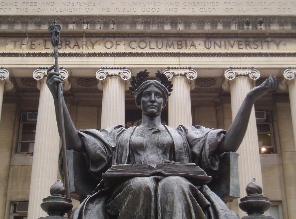 Picture of the statue Alma Mater in front of Low Memorial library on the campus of Columbia University.